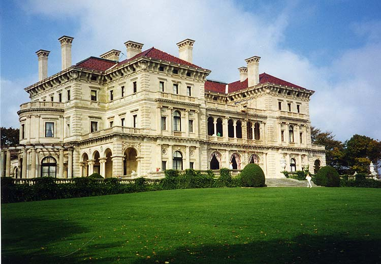 Photo of The Breakers from the rear, Newport, Rhode Island